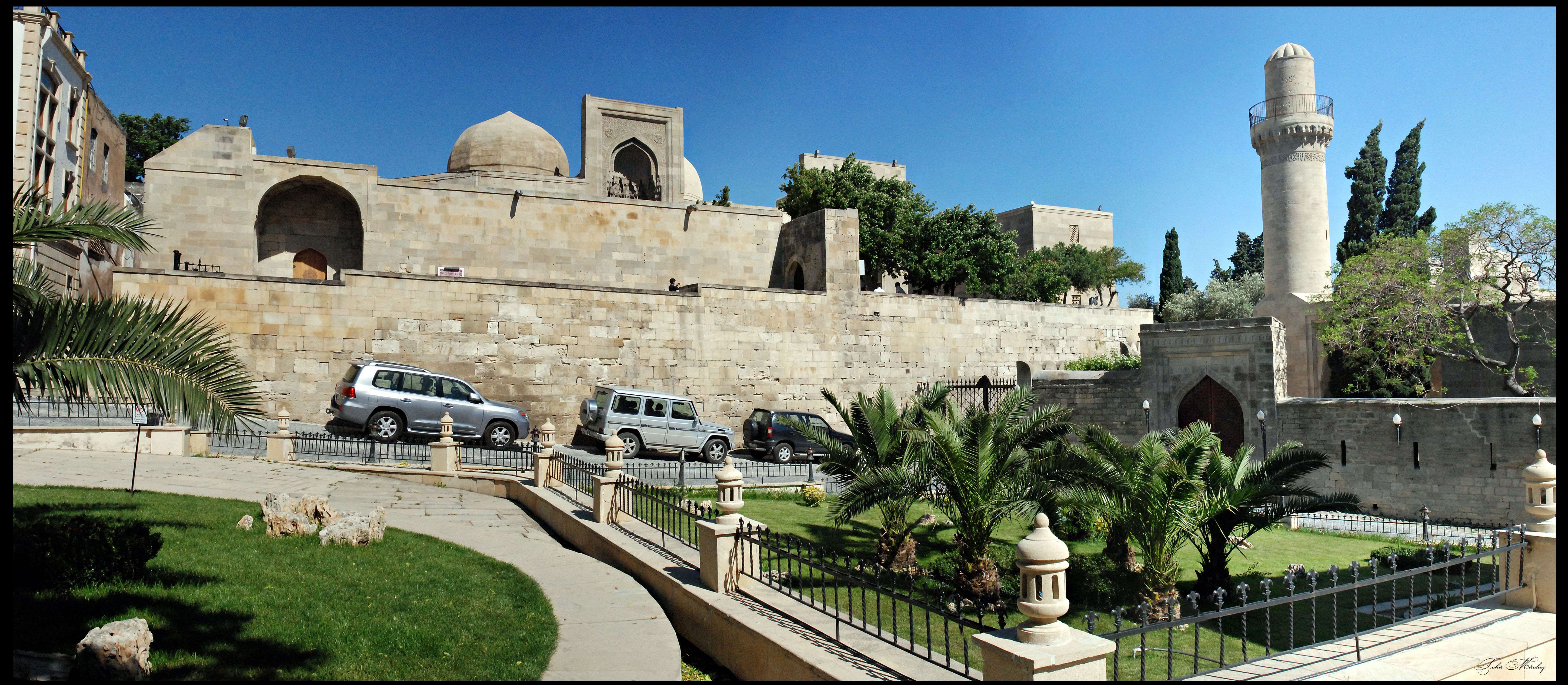 Shirvanshah's palace